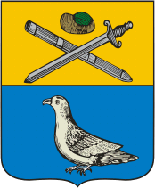 Sapozhok (Ryazan oblast), coat of arms (1779)